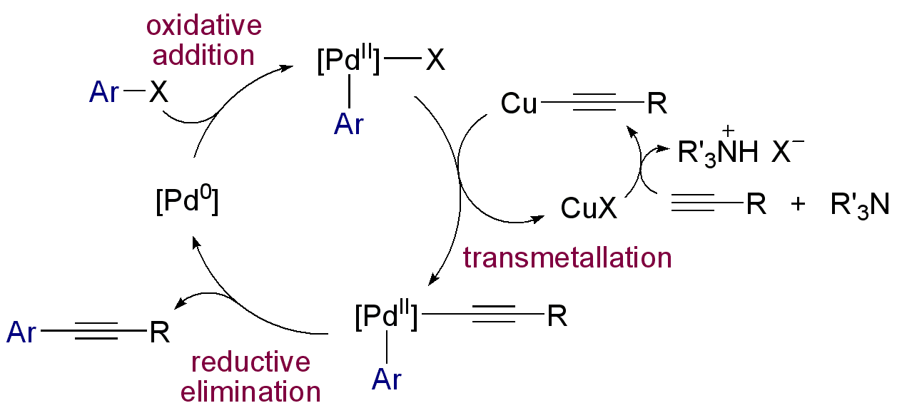 Catalytic cycle of Sonogashira reaction.